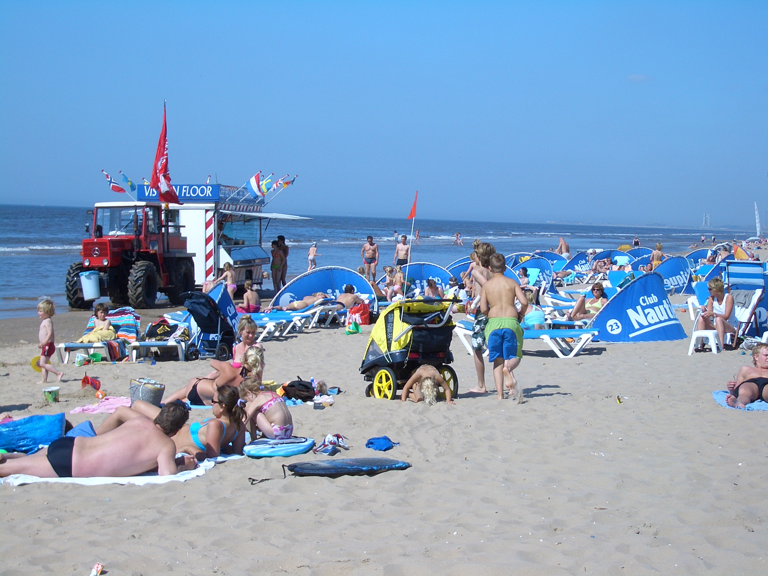 On the beach in Zandvoort an Zee